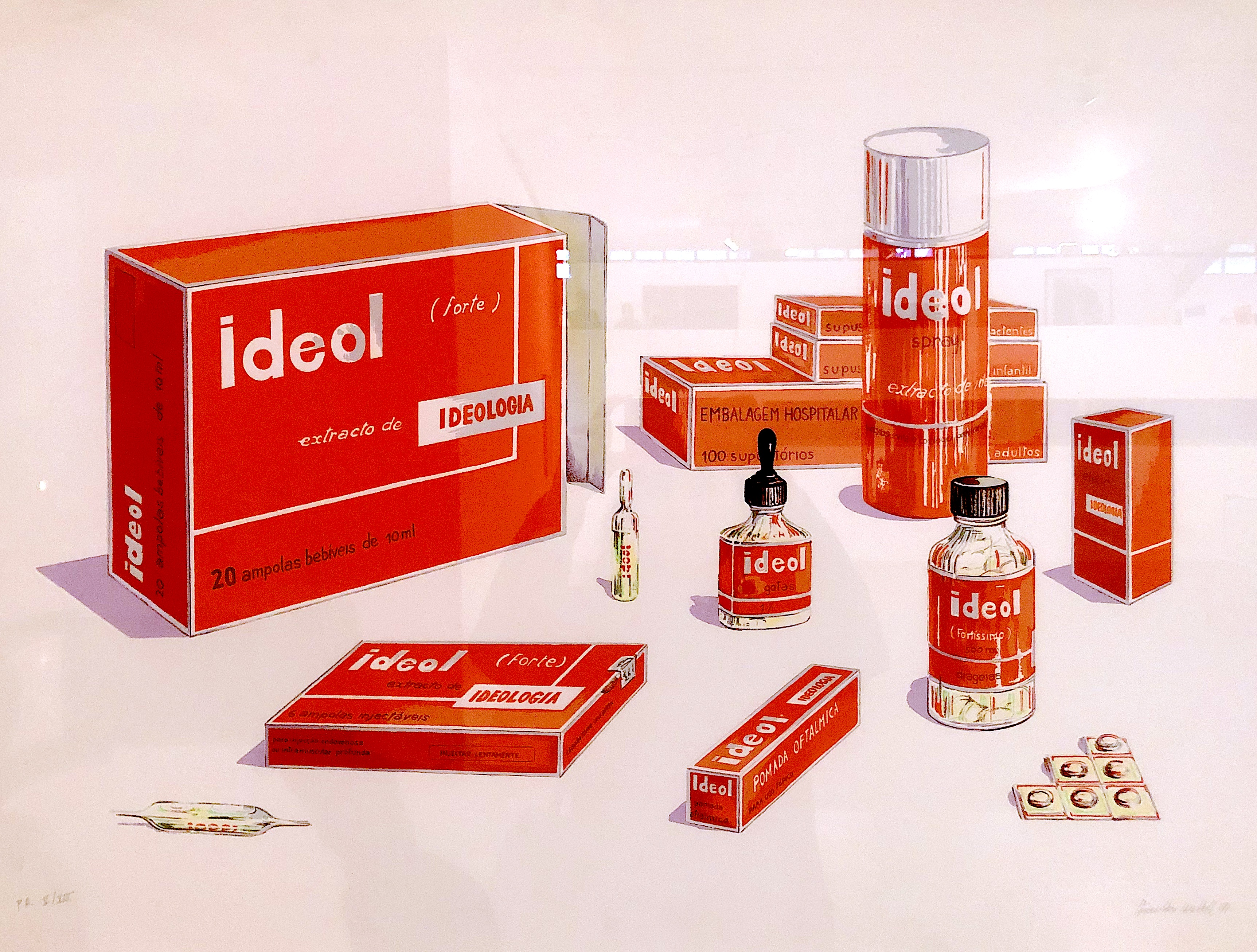 Ideol, 1977, silkscreen print on paper.